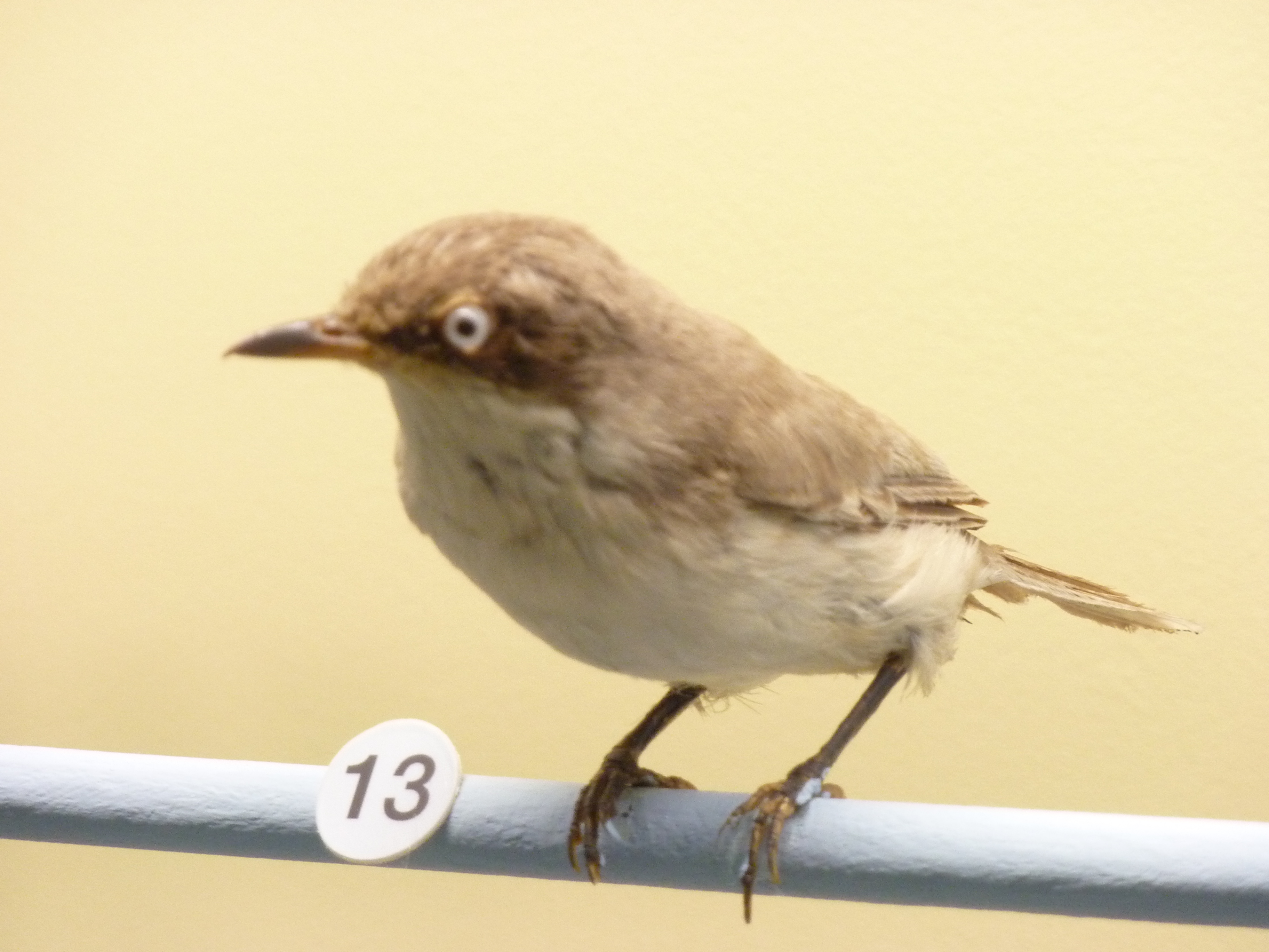 Western Orphean Warbler (Sylvia hortensis), female